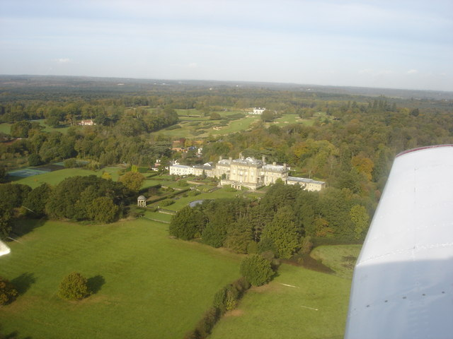 Ottershaw Park From the Air Ottershaw Park with Queenwood Golf Club in the background taken whilst landing at Fairoaks Airport.